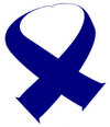 Portugal Pro-Life logotype.